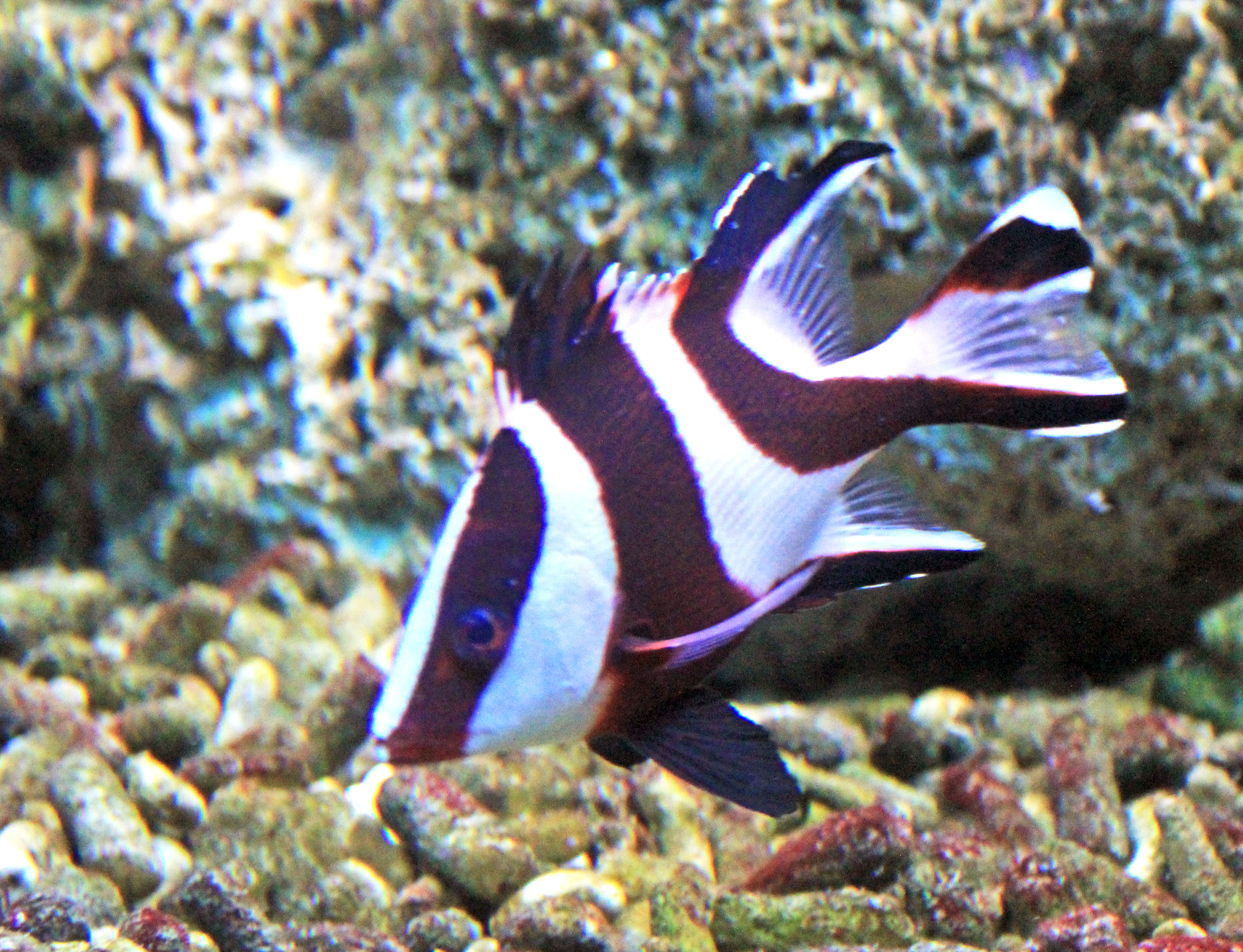 Sea fish Lutjanus sebae in Prague sea aquarium “Sea world”, Czech Republic Česky: Ryba chňápal císařský Lutjanus sebae v pražském mořském akváriu Mořský svět v Holešovicích